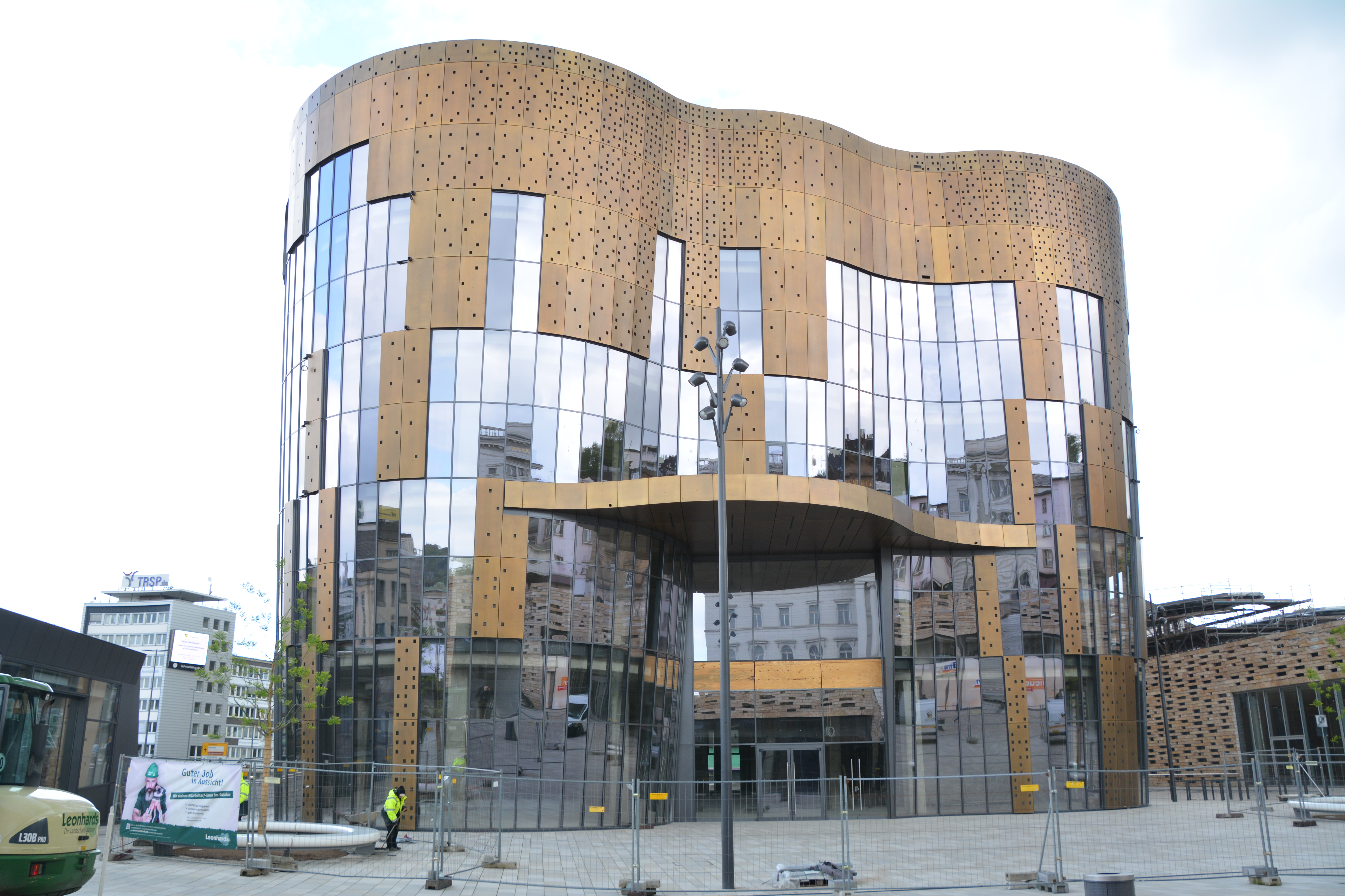 Neue Bildergalerie Döppersberg, Bahnvorplatz Wuppertal